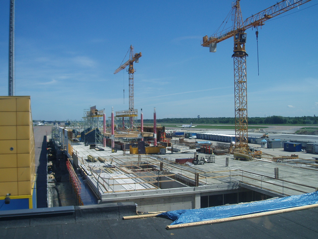 Construction works in Tallinn Airport